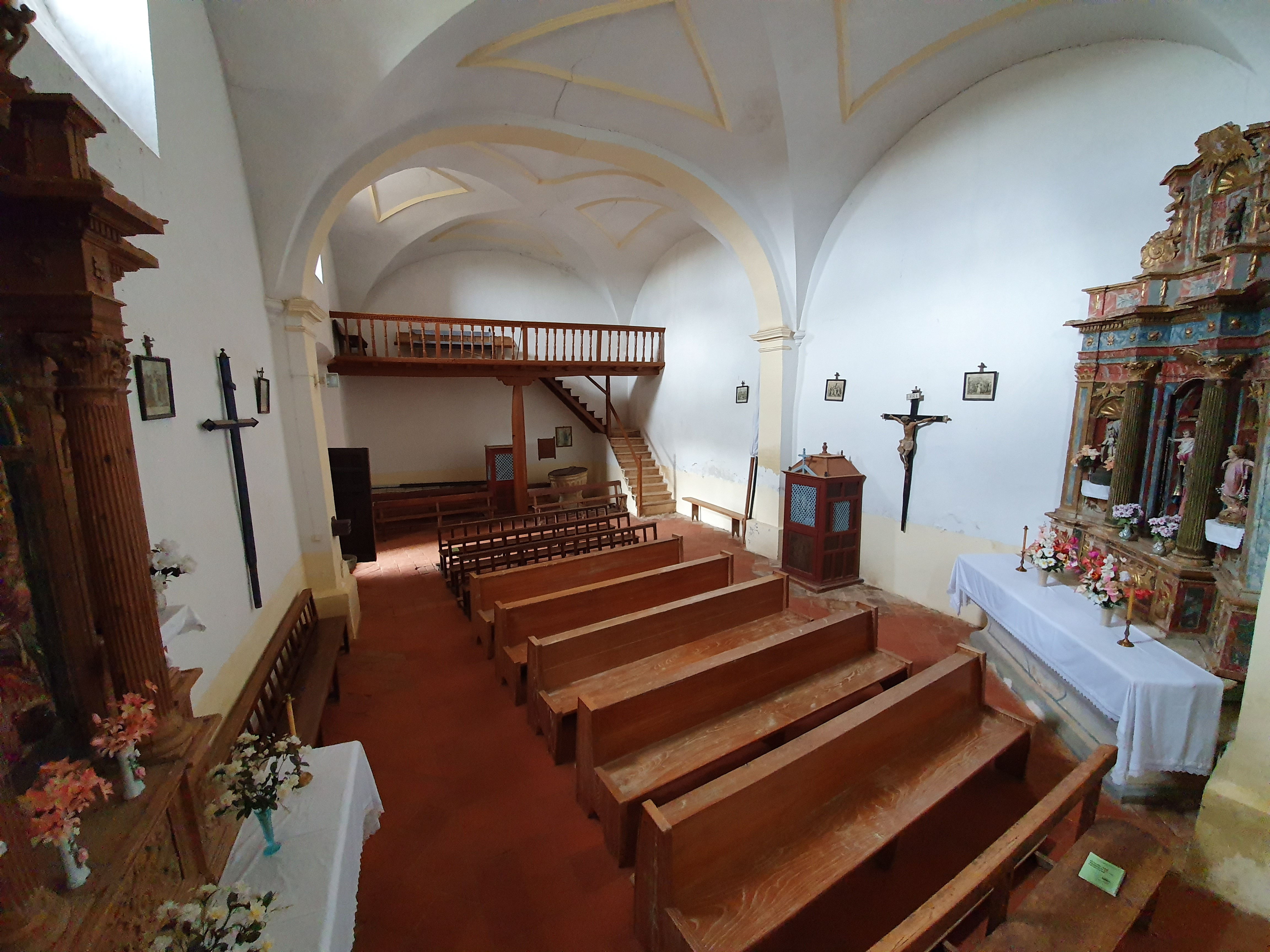 Interior of the Church of La Asunción in Villamelendro (Palencia, Castile and León).